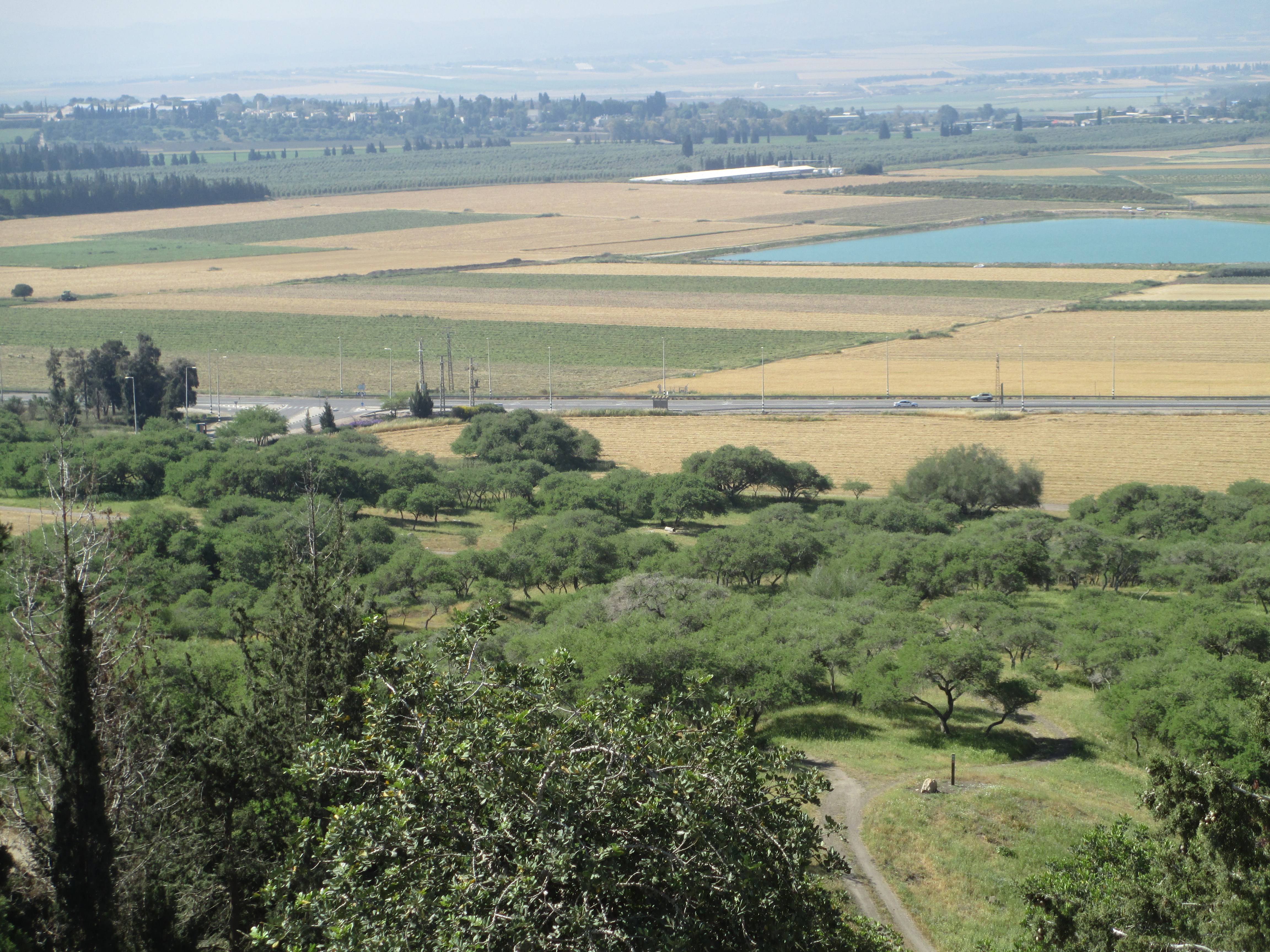 Acacia albida nature reserve in Tel Shimron